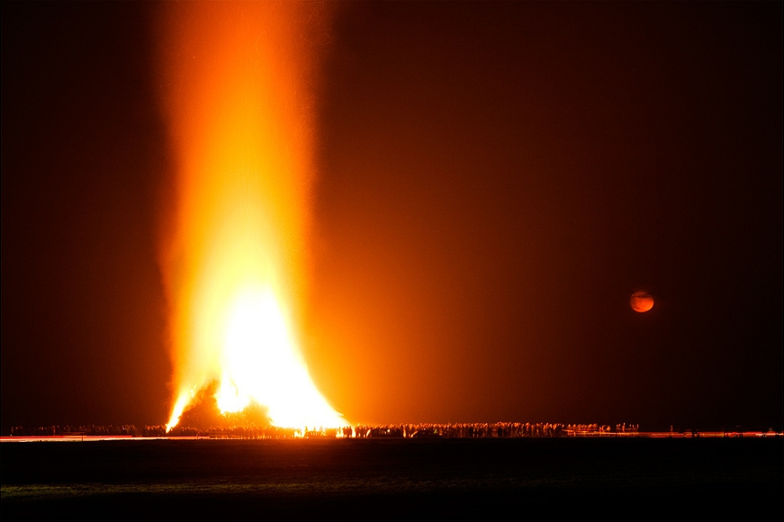 In Twente, it's an old habit to welcome spring by making huge fires, nowadays at Eastern. This photo is taken in Buurse, close to the German border. This is one of the biggest fires in the region.